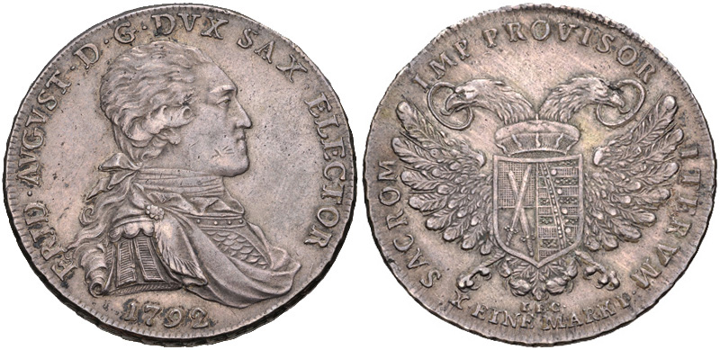 GERMANY, Sachsen-Albertinische Linie (Kurfürstentum). Friedrich August III (Friedrich August I von Sachsen). 1763-1806. AR Konventionstaler (40mm, 27.97 g, 12h). On the Vikariat. Dresden mint. Dated 1792. Draped and cuirassed bust right / Coat-of-arms surmounted by cap; all on double-headed imperial eagle. Davenport 2700. Good VF, toned, light marks.